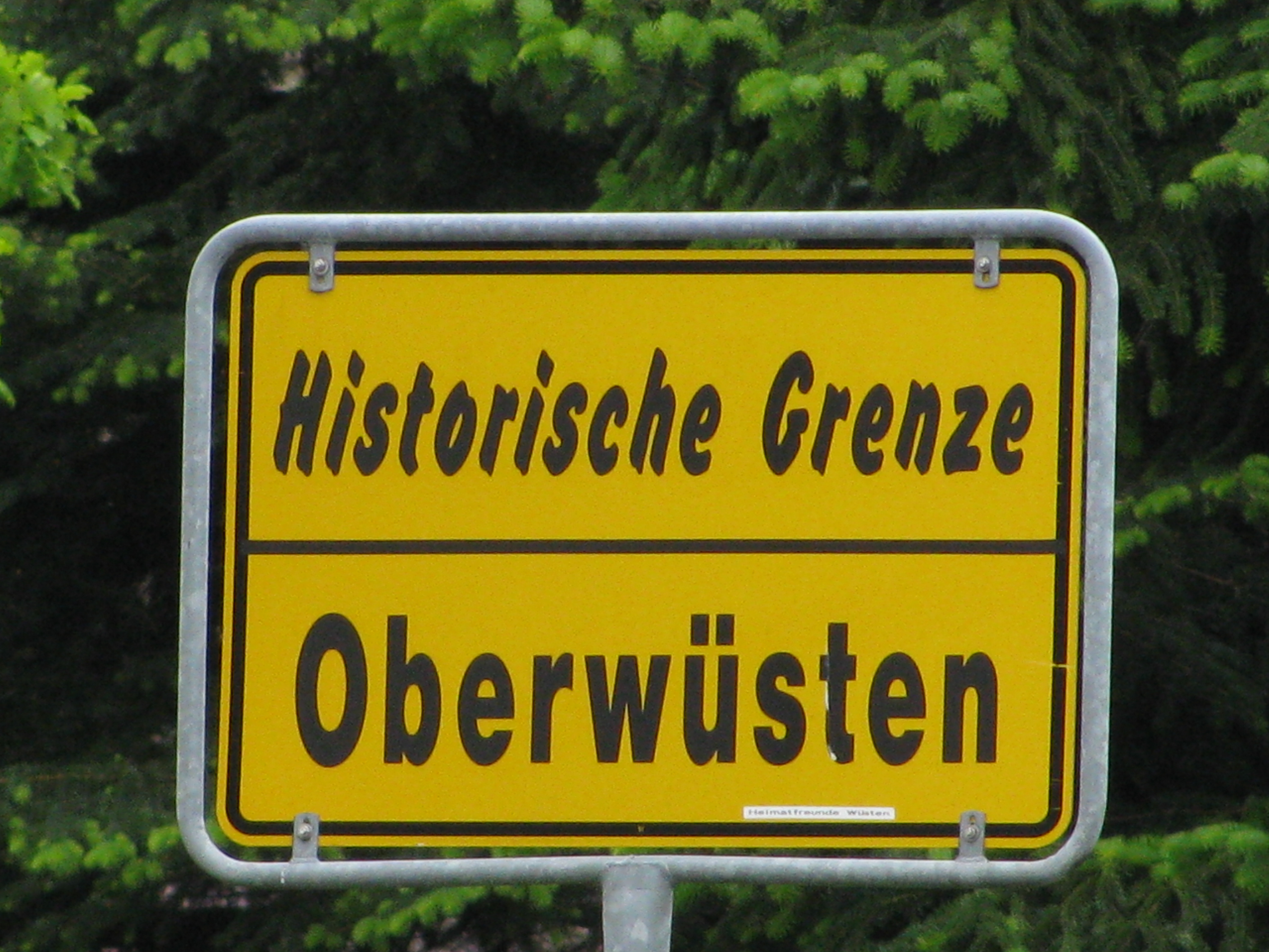 Germany - North Rhine-Westphalia - Lippe - Bad Salzuflen - Wüsten: historical boarder "Ober-/Unterwüsten"